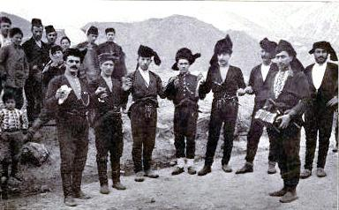 Laz people, native to Georgia and Turkey, ready for a dance in Armenia